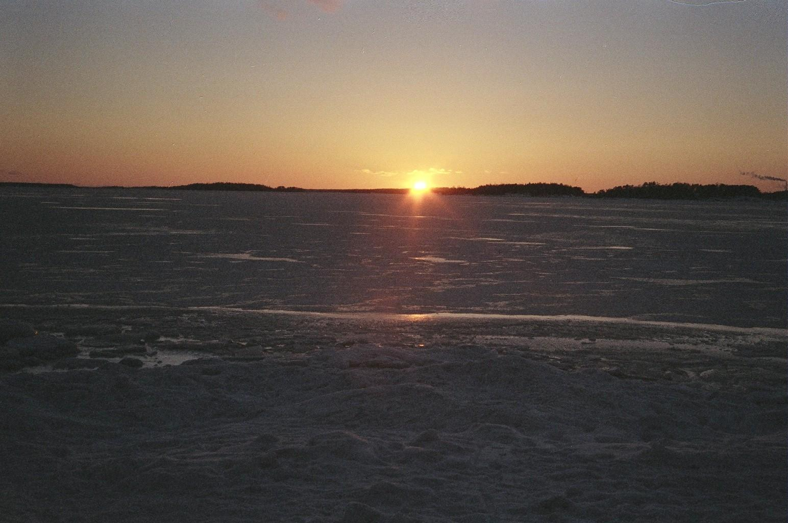 Sunset from Särkiniemi park, the Southern tip of Lauttasaari Island in Helsinki, Finland. The see is frozen and the main islands visible from left to right are Käärmesaari, Käärmeluoto West, Käärmeluoto North and the bigger Mäntysaari immediately behind.